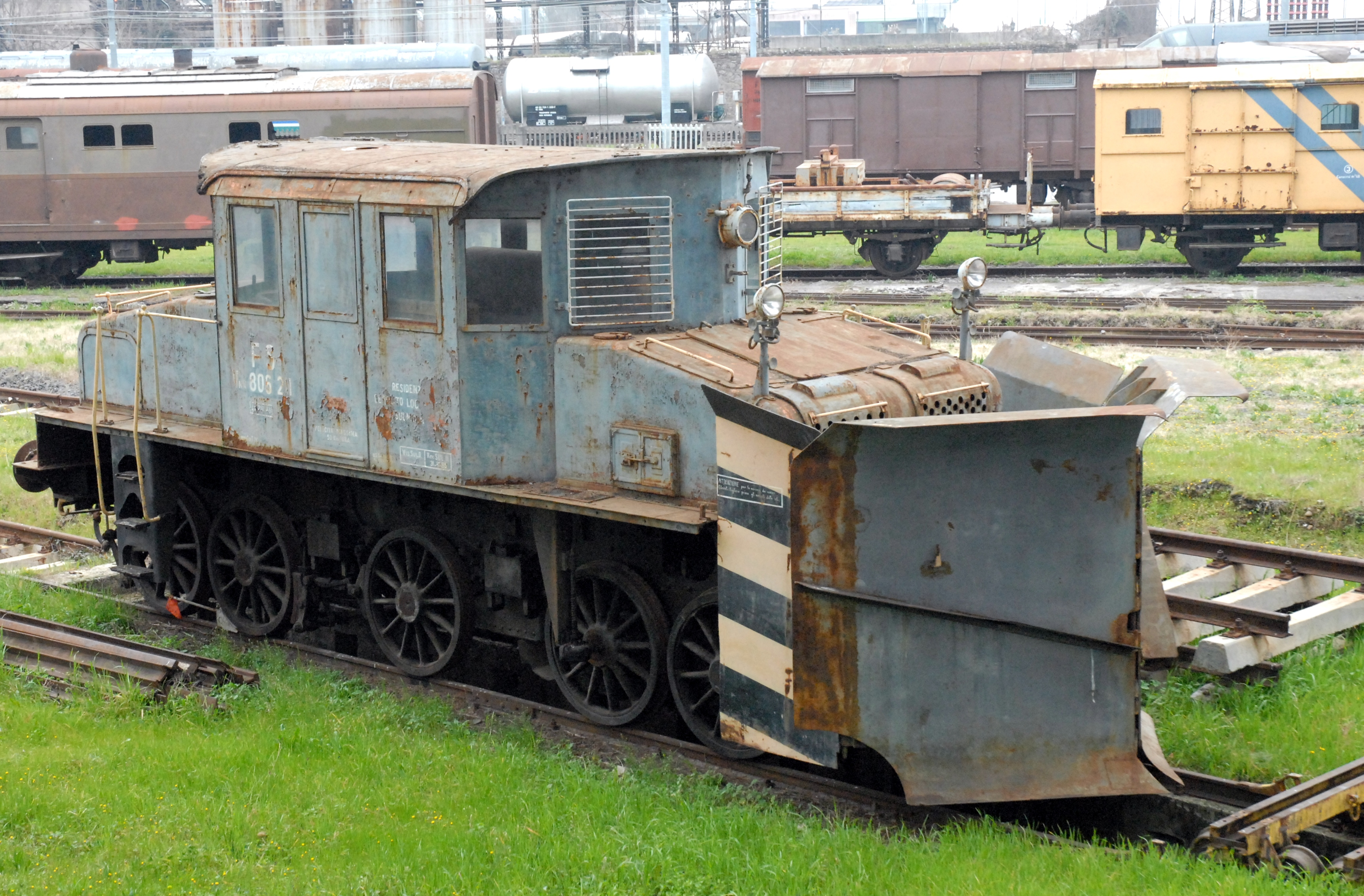 Photos from the FS railway deposit in Pistoia, Italy. Italian snowplow made by transformation of the old electric Trifase locomotive E.550